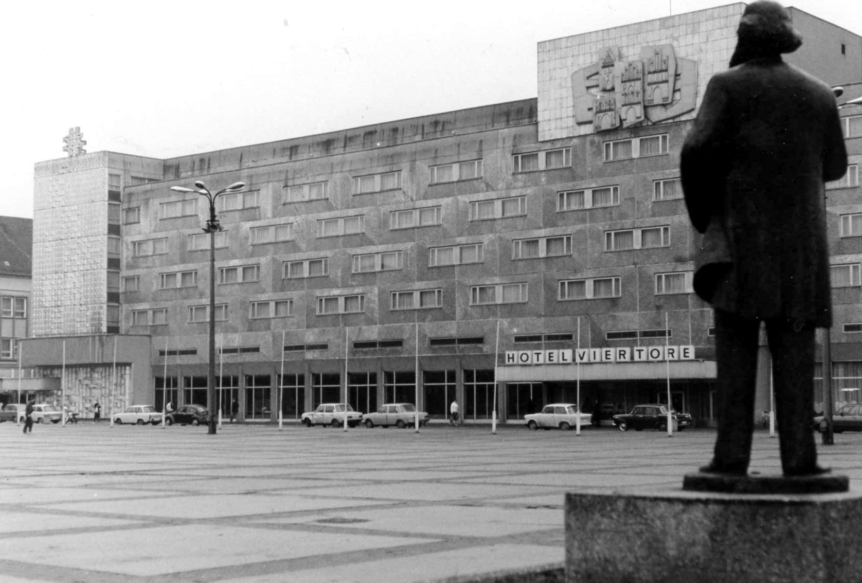 Now a luxury hotel, the SAS Radisson, Karl Marx statue by Gerhard Thieme